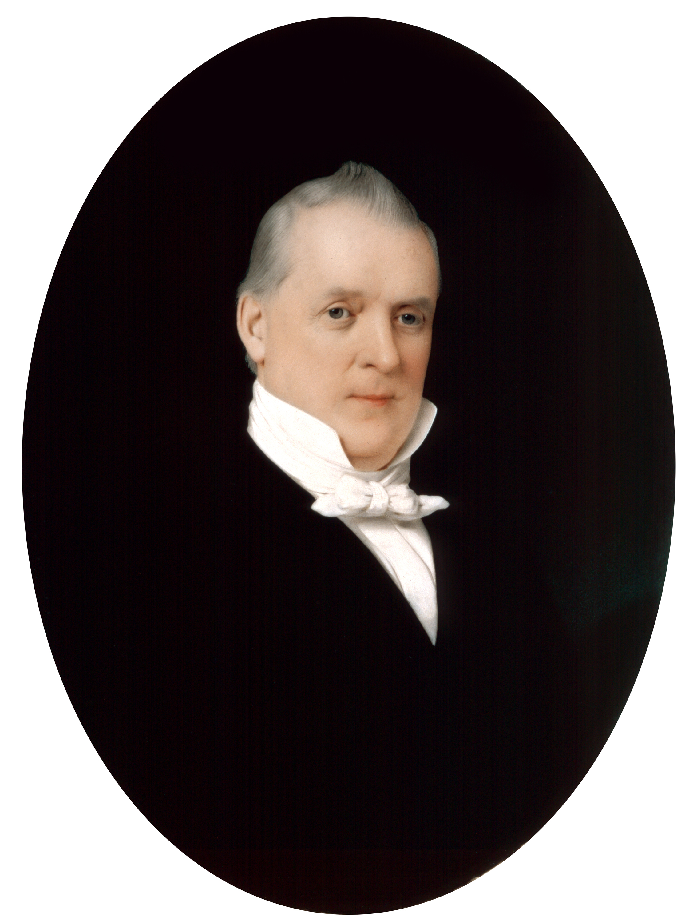 later served (1857-1861) as 15th President of the United States